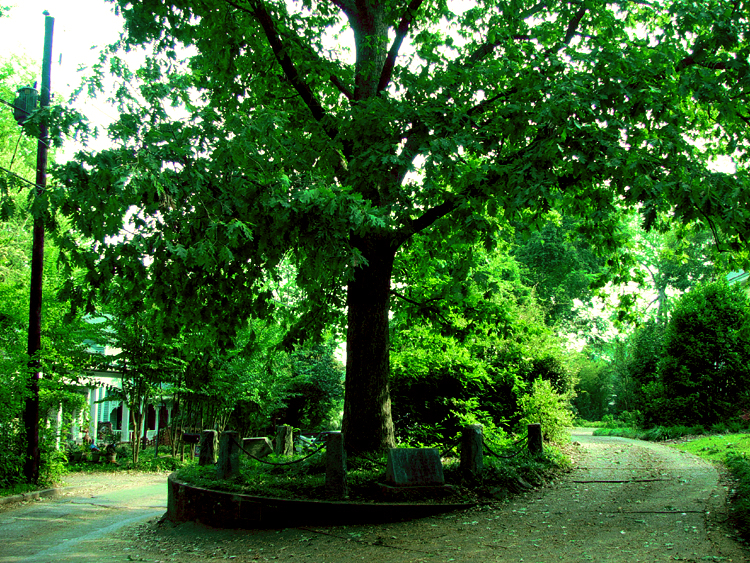 A photograph of the Son of Tree That Owns Itself taken by myself on a humid day in 2005.